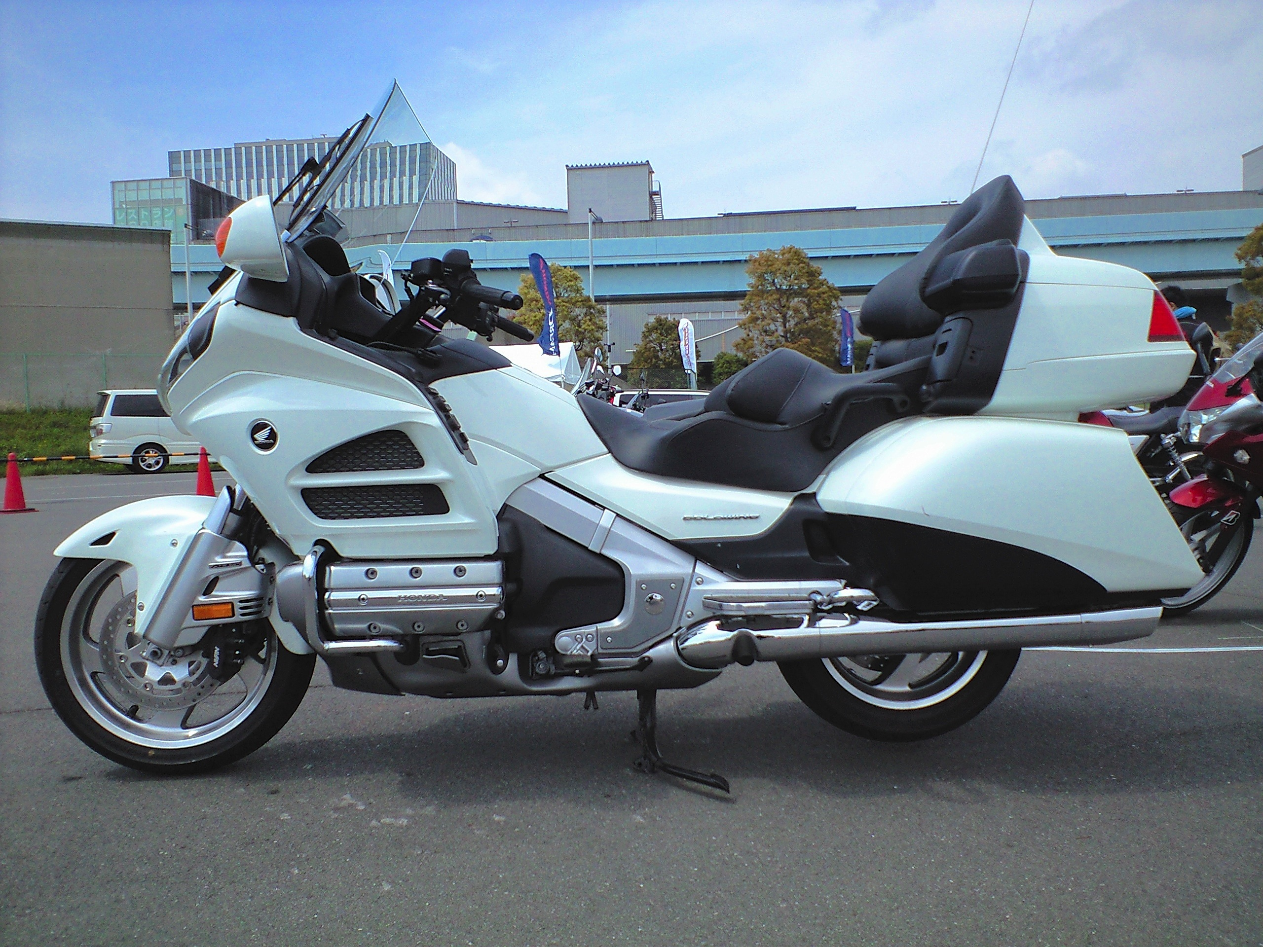 Honda Gold Wing GL1800 2012 models HONDA GOLDWING GL1800 for the exhibition vehicle.